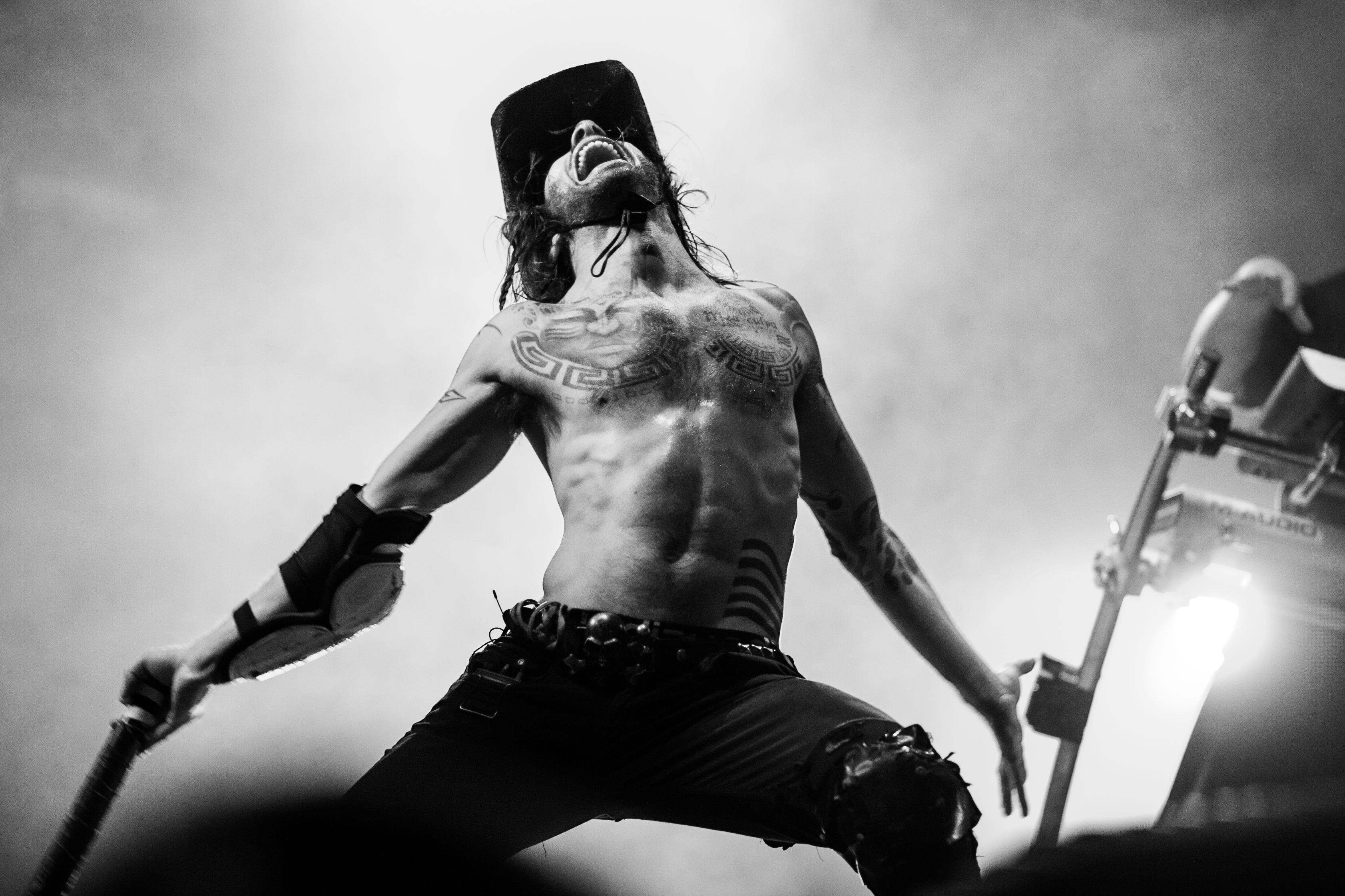 Follow me on facebook Twitter : @didyPhotography All the photographies I've made are now under CC0 (Creative Commons Zero) CC0 - learn more To the extent possible under law, Eddy BERTHIER has waived all copyright and related or neighboring rights to Shaka Ponk @ Fête de l'Humanité 2012. This work is published from: France.